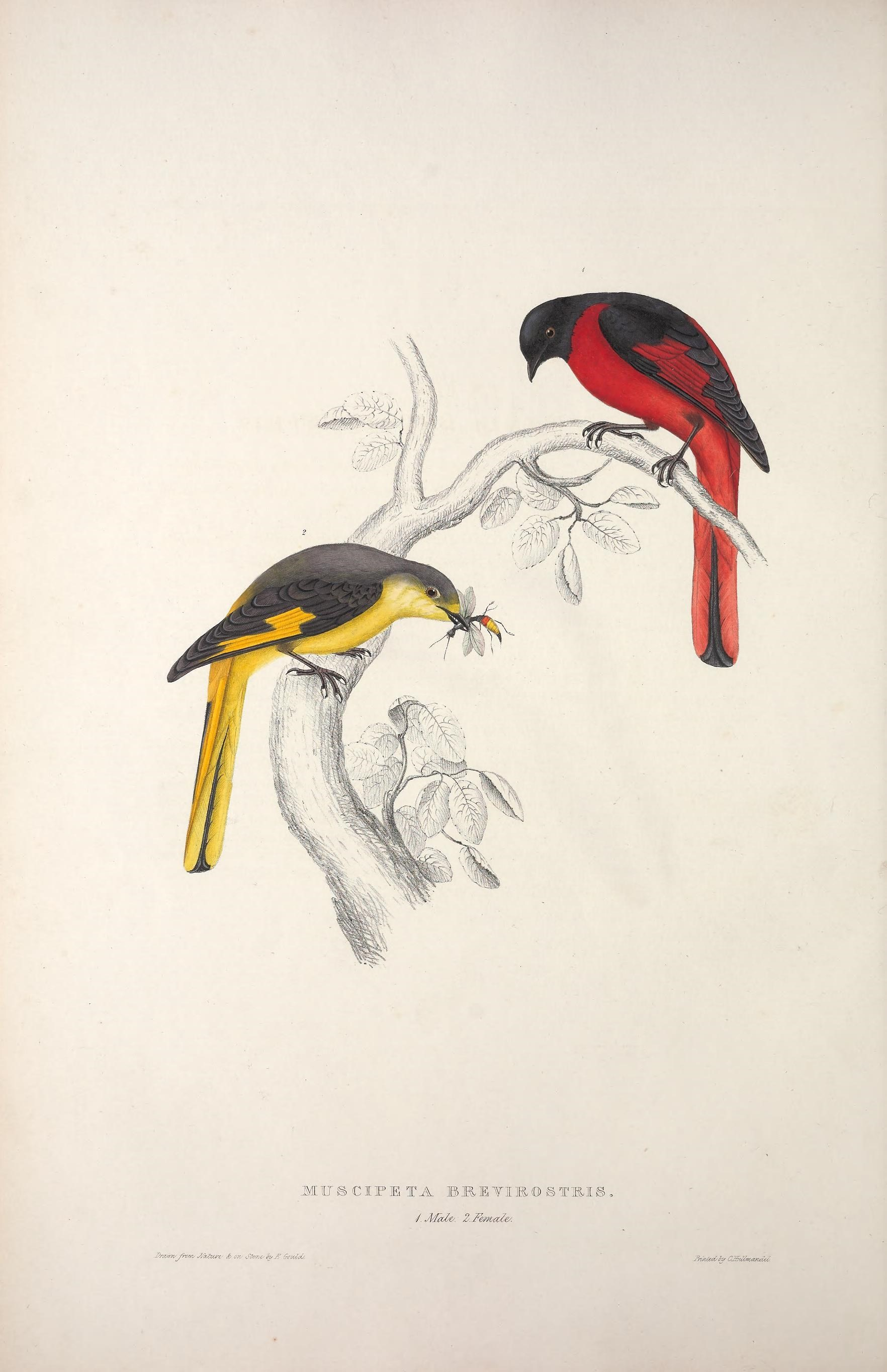 ^&-•^^C?%^ lAfalo. Z.A -Z^oiVK/Jhw^ AlK:dvcrty ^ ory S^r..o ^yf ^ci Tfv/!,^d'iz/ GSr-ic^va^uui'.